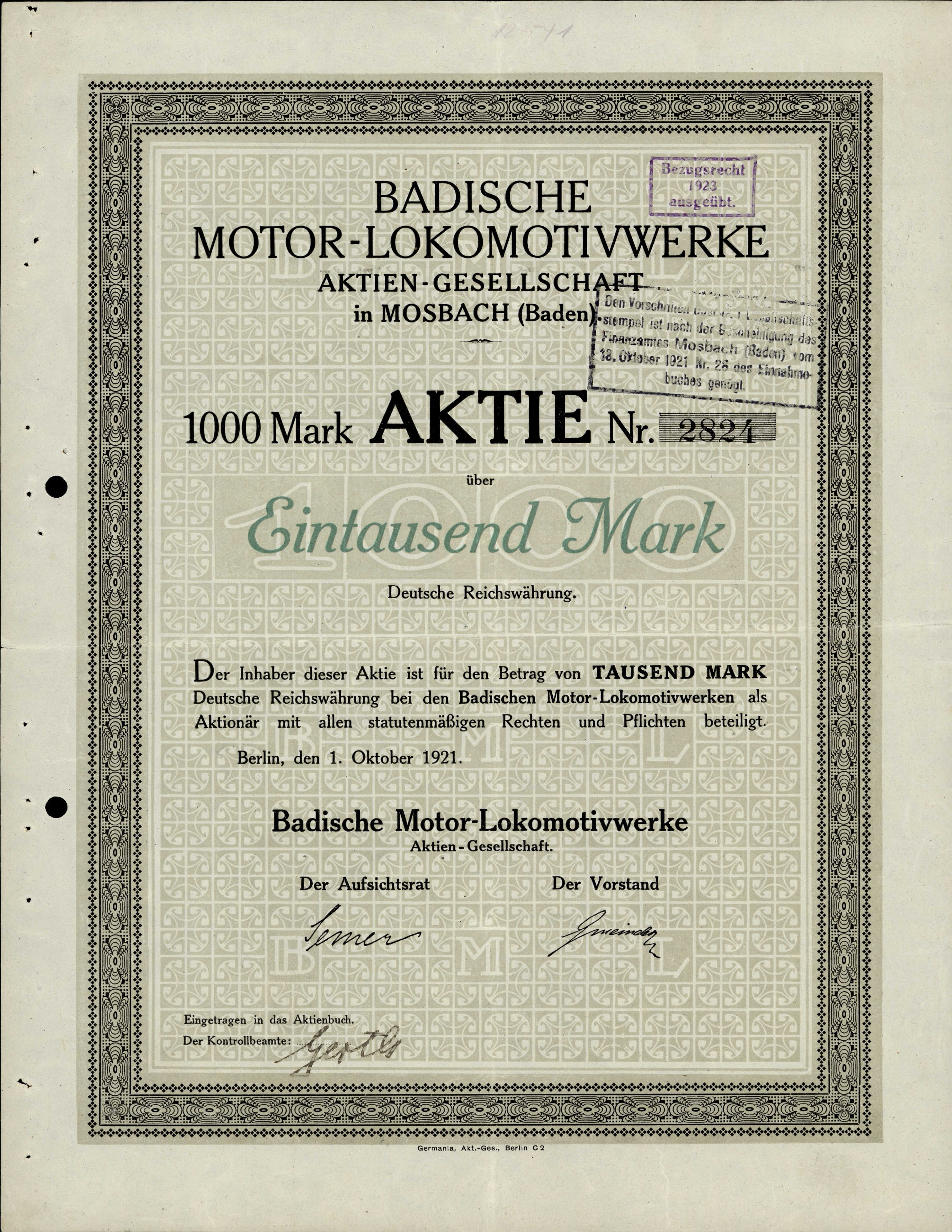 Share of the Badische Motor-Lokomotivwerke AG, issued 1. October 1921